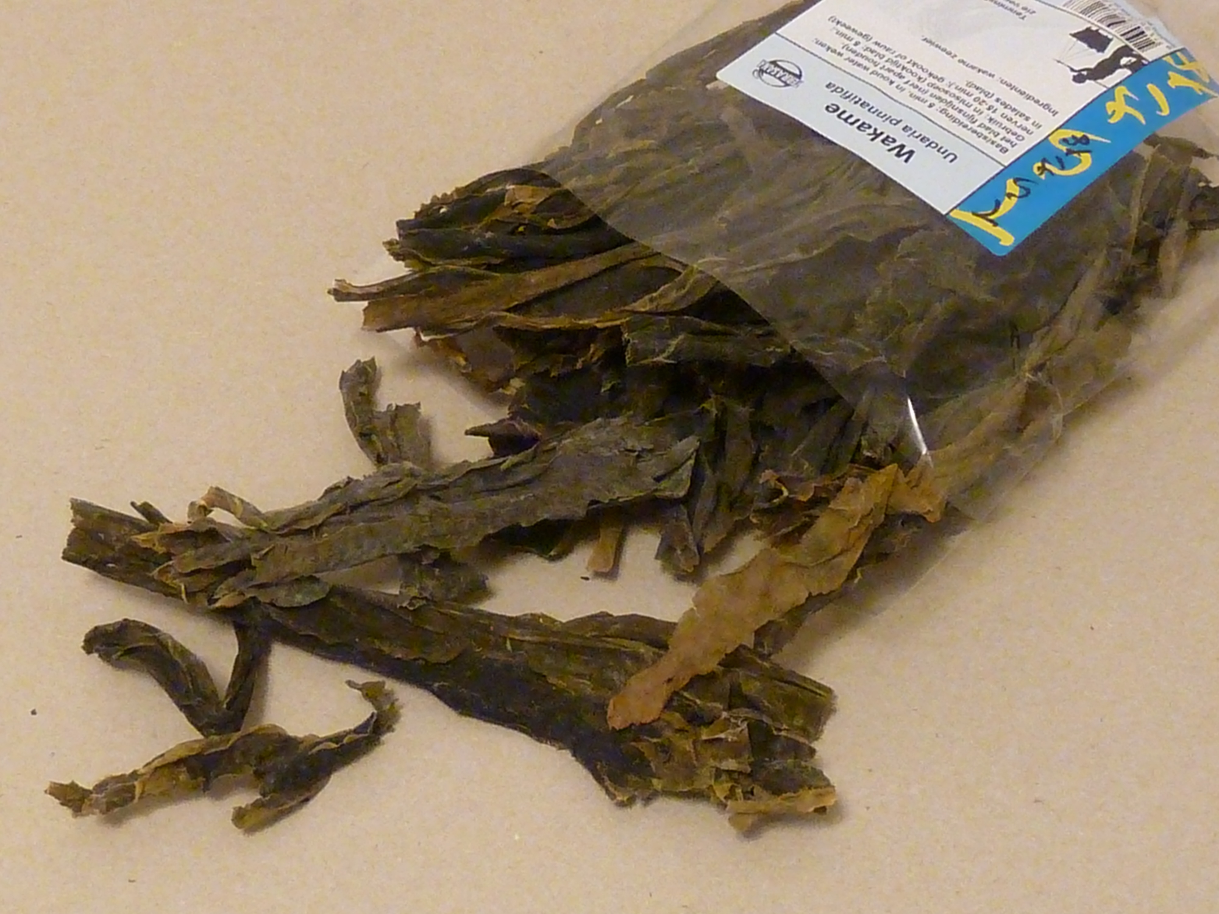 Organic Dried Wakame